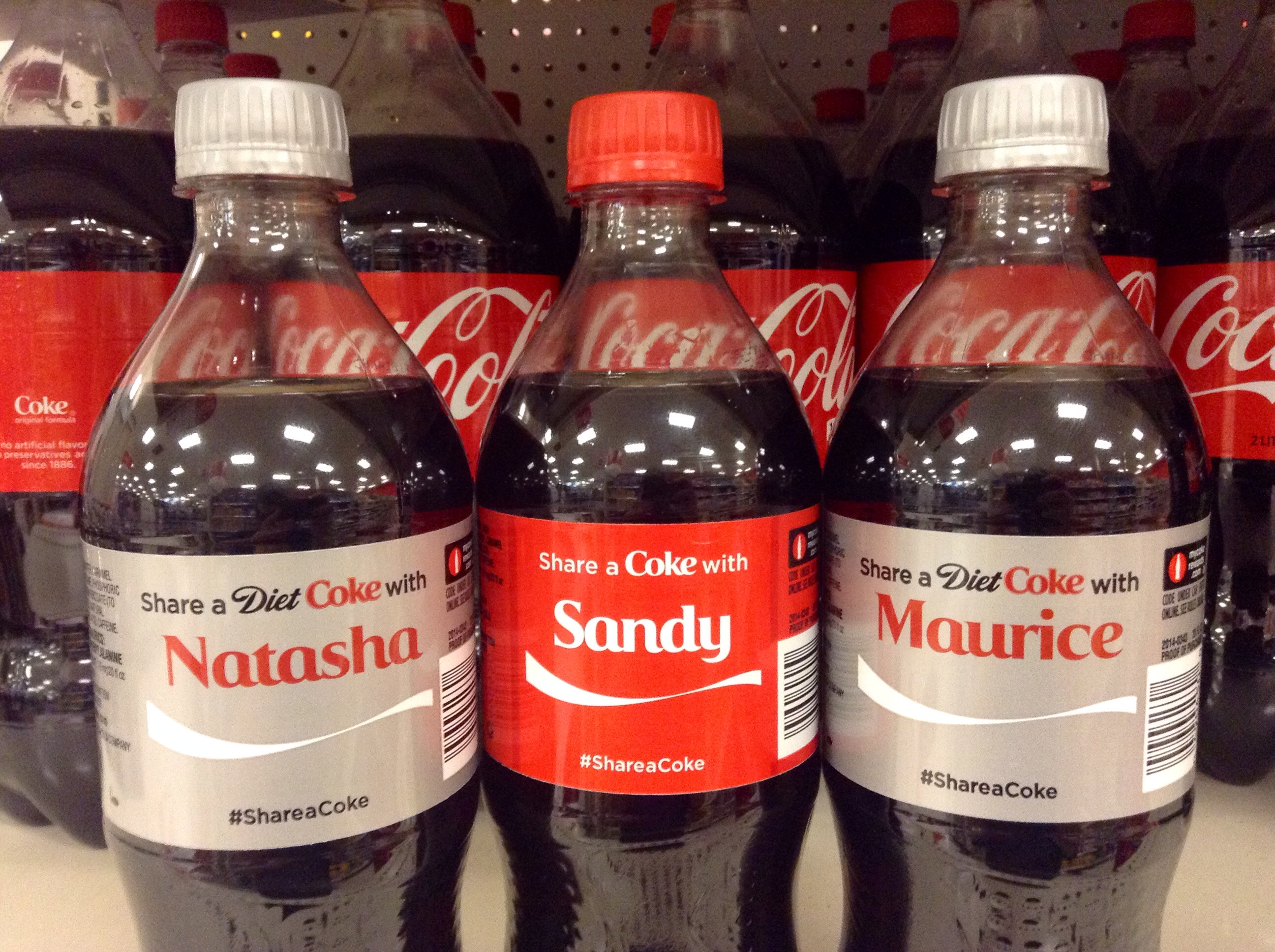 "Share a Coke" Natasha, Sandy, Maurice